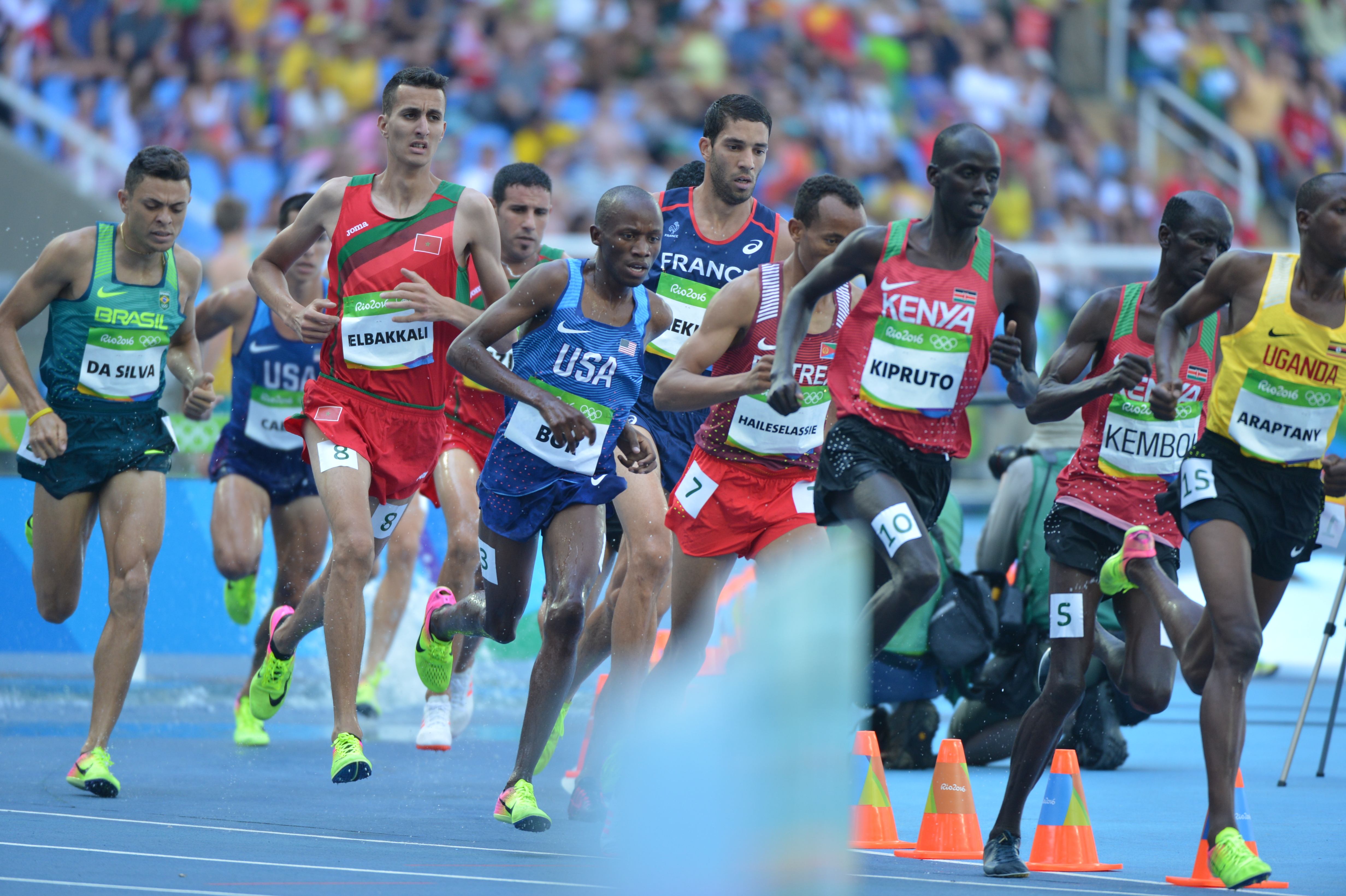 Sgt. Hillary Bor, a Soldier in the U.S. Army World Class Athlete Program stationed at Fort Carson, Colo., runs to an eighth-place finish in the men's 3,000-meter steeplechase with a personal-best time of 8 minutes, 22.74 seconds on Aug. 17 at the 2016 Rio Olympic Games in Rio de Janeiro. Brimin Kiprop Kipruto of Kenya won the race in an Olympic record time of 8:03.28, followed by silver medalist Evan Jager (8:04.28) of Team USA and bronze medalist Ezekiel Kemboi (8:08.47) of Kenya. U.S. Army photo by Tim Hipps, IMCOM Public Affairs #SoldierOlympians #ArmyOlympians #ArmyTeam #GoArmy #TeamUSA #ArmyStrong #RoadToRio